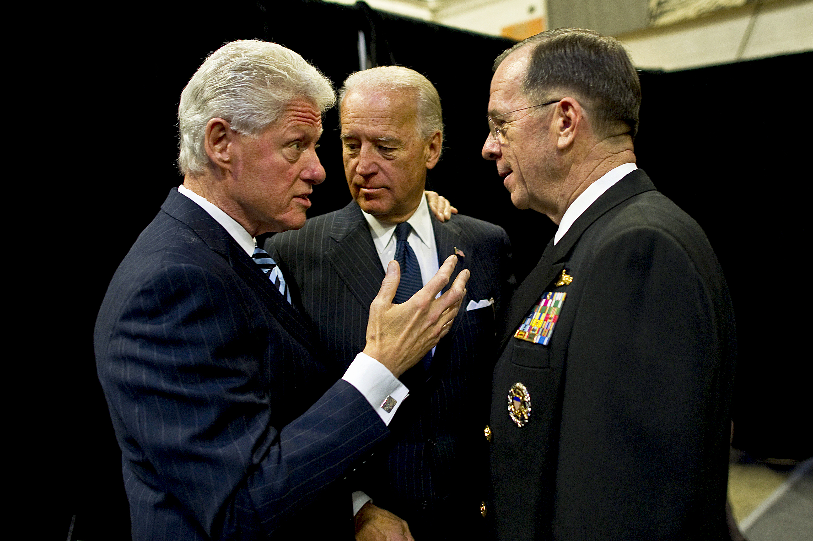 Former President Bill Clinton, Vice President Joe Biden and Navy Adm. Mike Mullen, chairman of the Joint Chiefs of Staff, speak backstage at the memorial service for Ambassador Richard C. Holbrooke at the John F. Kennedy Center for Performing Arts in Washington, D.C., Jan. 14, 2011.